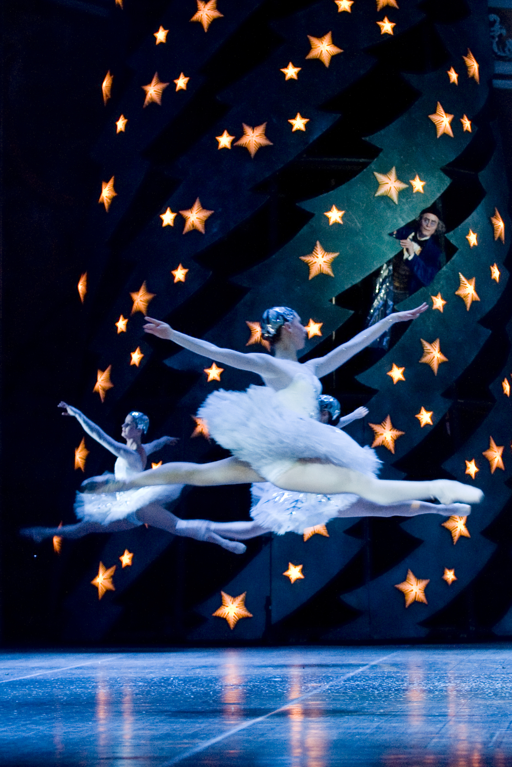 A production of The Nutcracker at the Royal Swedish Opera.